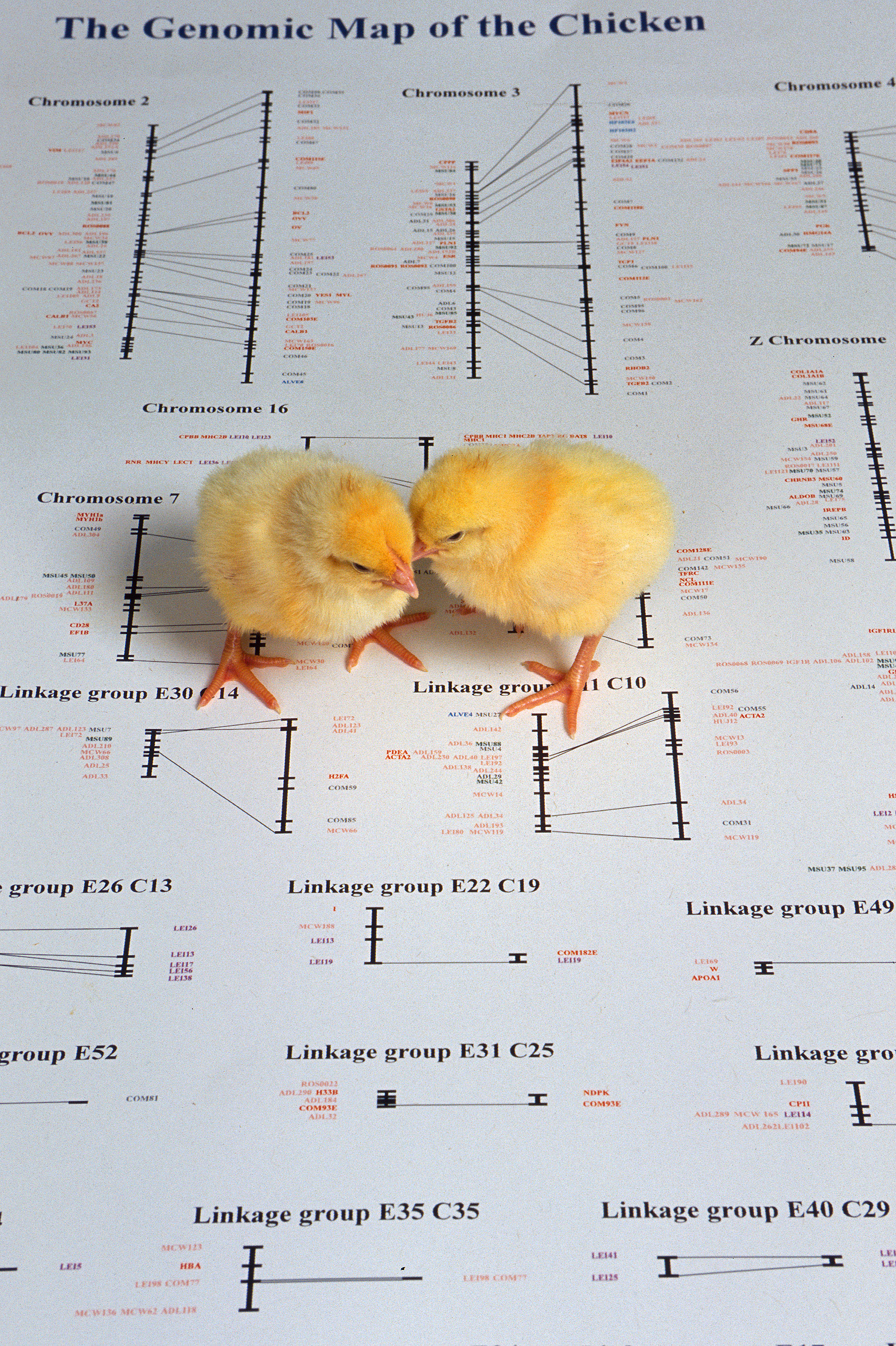 Chicks atop a picture of a genetic map of a chicken. The chicken genome has 39 pairs of chromosomes, whereas the human genome contains 23 pairs.